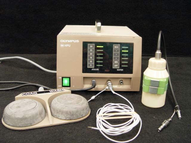 Electrosurgery equipment